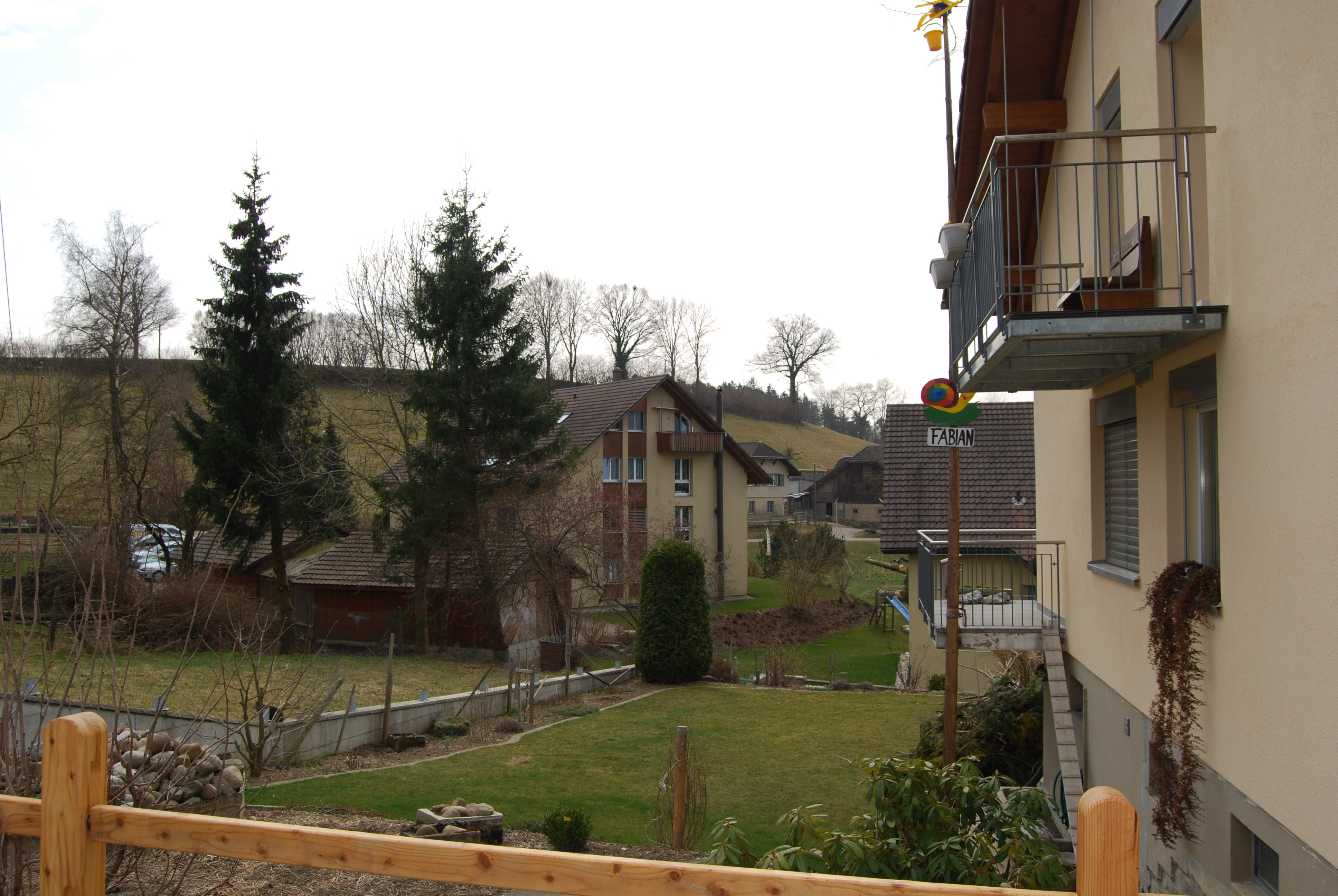 Auswil, canton of Bern, SwitzerlandEsperanto: Auswil, Kantono Berno, Svislando